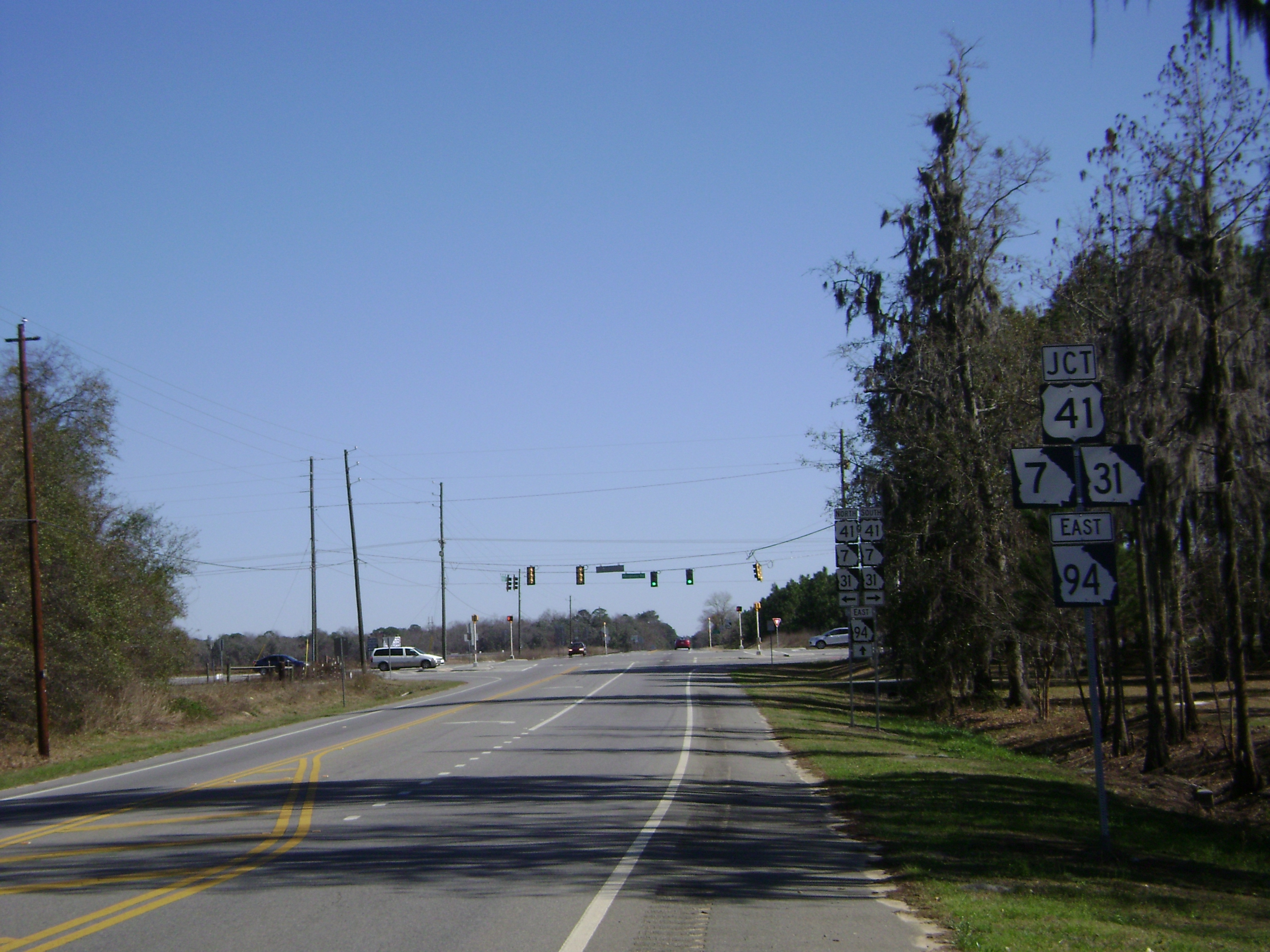 Photo taken on Statenville Highway in Lowndes County, Georgia. At Intersection, US 41 / GA 31 / GA 7 run North / South. GA 94 begins and continues East-South East.